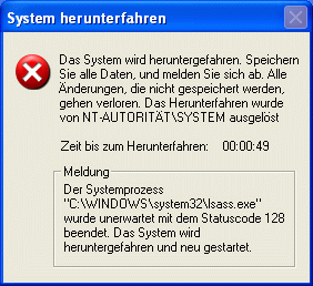 Screenshot Virus Sasser